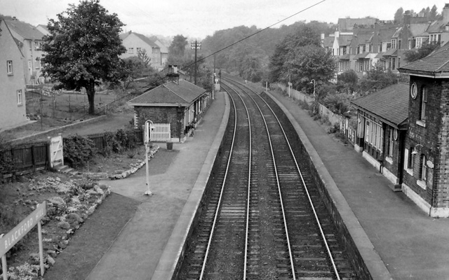 Blackford Hill Station. View westward, towards Craiglockhart and Haymarket; ex-NB Edinburgh South Suburban line. Station closed to passengers 10/9/62; line still open for freight.